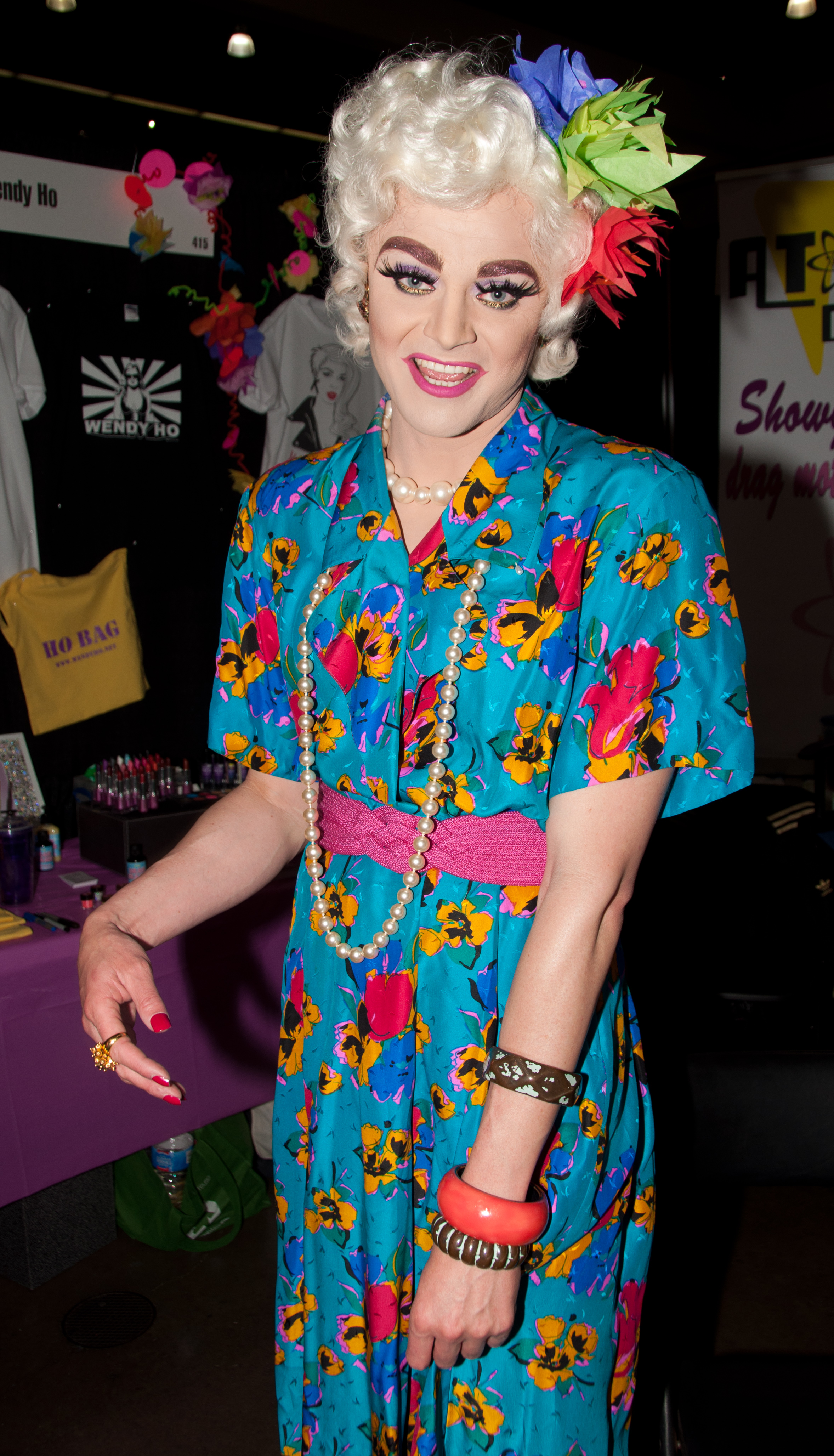 Tammie Brown at Drag Con downtown LA 2015